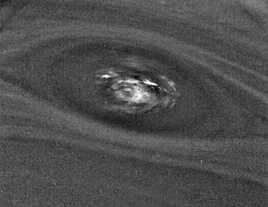 This bulls-eye view of Neptune's small dark spot (D2) was obtained by Voyager 2's narrow-angle camera on Aug. 24, 1989, when Voyager 2 was within 1.1 million km (680,000 miles) of the planet. The smallest structures that can be seen are 20 km (12 miles) across. This unplanned photograph was obtained when the infrared spectrograph was mapping the planet, and is the highest resolution view of the feature taken during the flyby. Banding surrounding the feature indicates unseen strong winds, while structures within the bright spot suggest both active upwelling of clouds and rotation about the center. A rotation rate has not yet been measured, but the V-shaped structure near the right edge of the bright area indicates that the spot rotates clockwise. Unlike the Great Red Spot on Jupiter, which rotates counterclockwise, if the D2 spot on Neptune rotates clockwise, the material will be descending in the dark oval region. The fact that infrared data will yield temperature information about the region above the clouds makes this observation especially valuable.